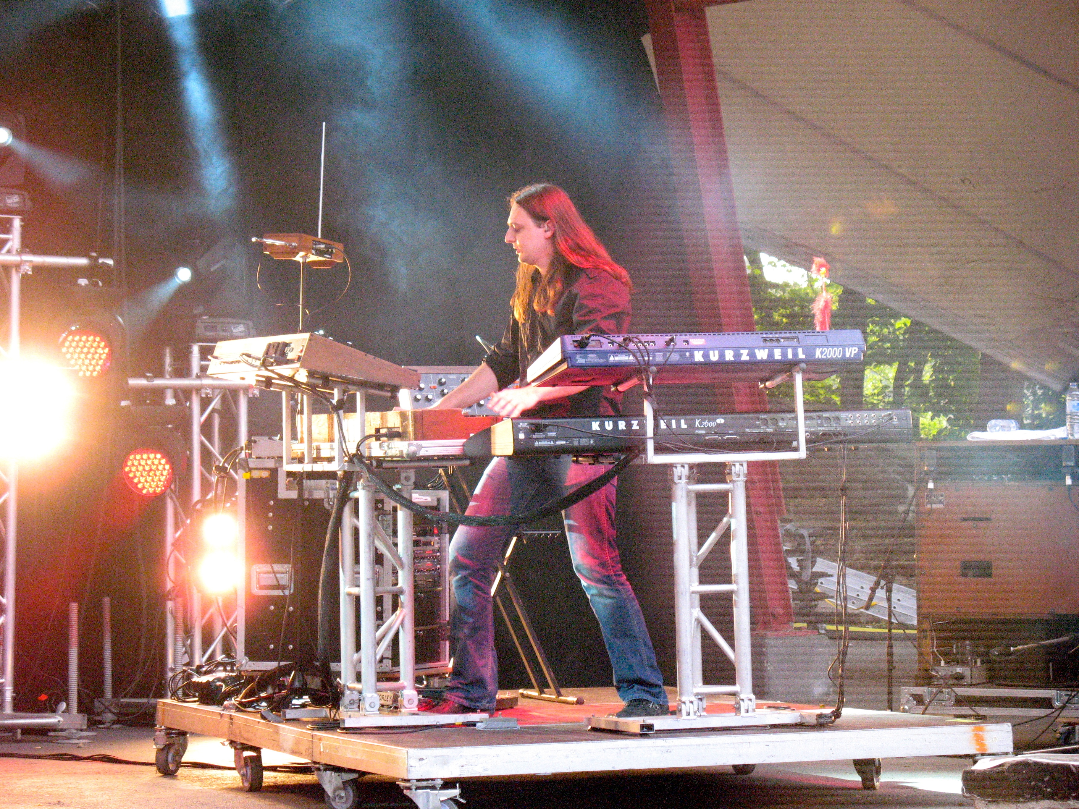 Michał Łapaj of Polish rock band Riverside